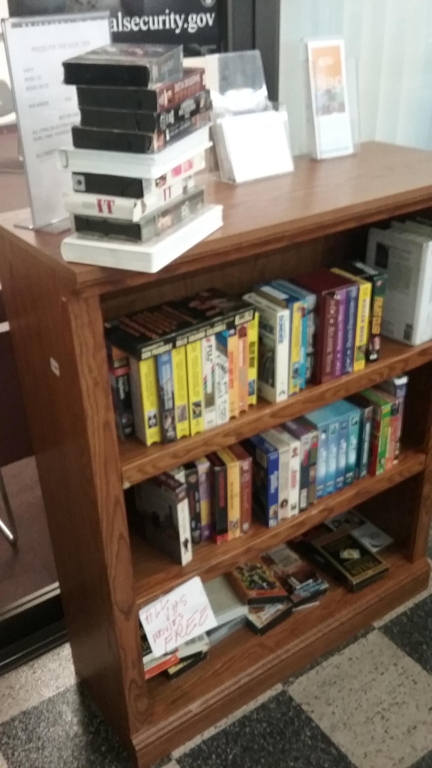 VHSs in Fig Garden Regional Library. Fresno County Public Library is giving away free VHSs